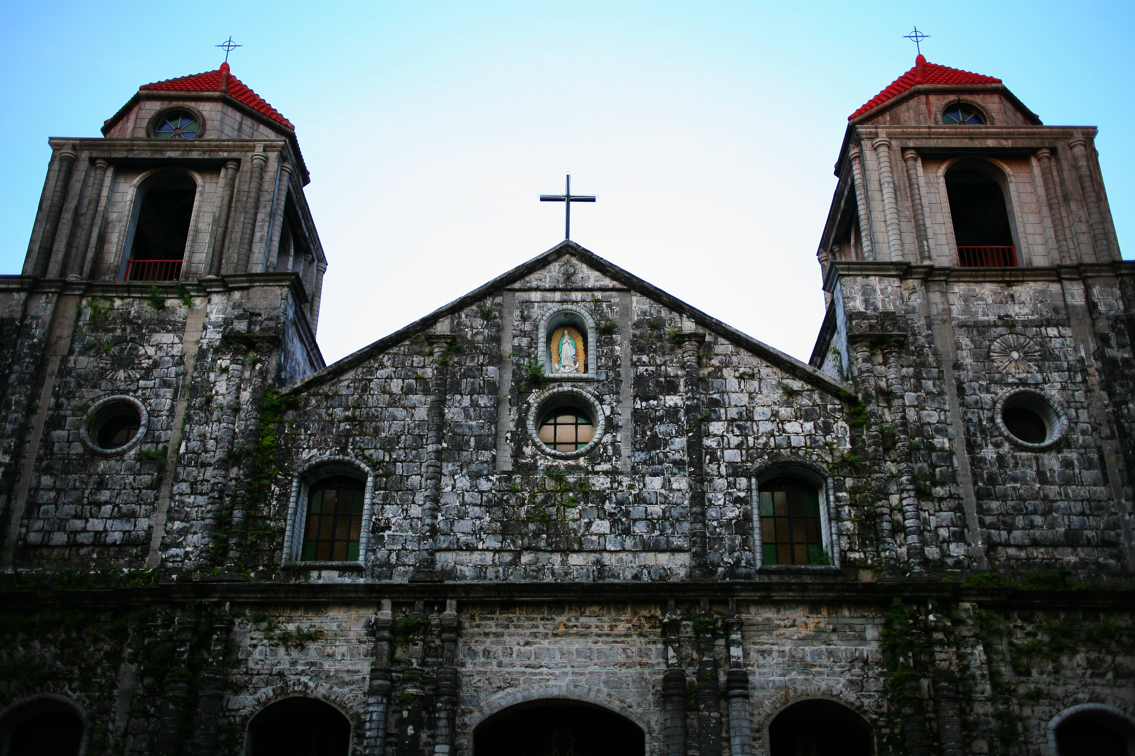 Church of Our Lady of Guadalupe, in Valladolid, Negros Occidental, Philippines, year 1877